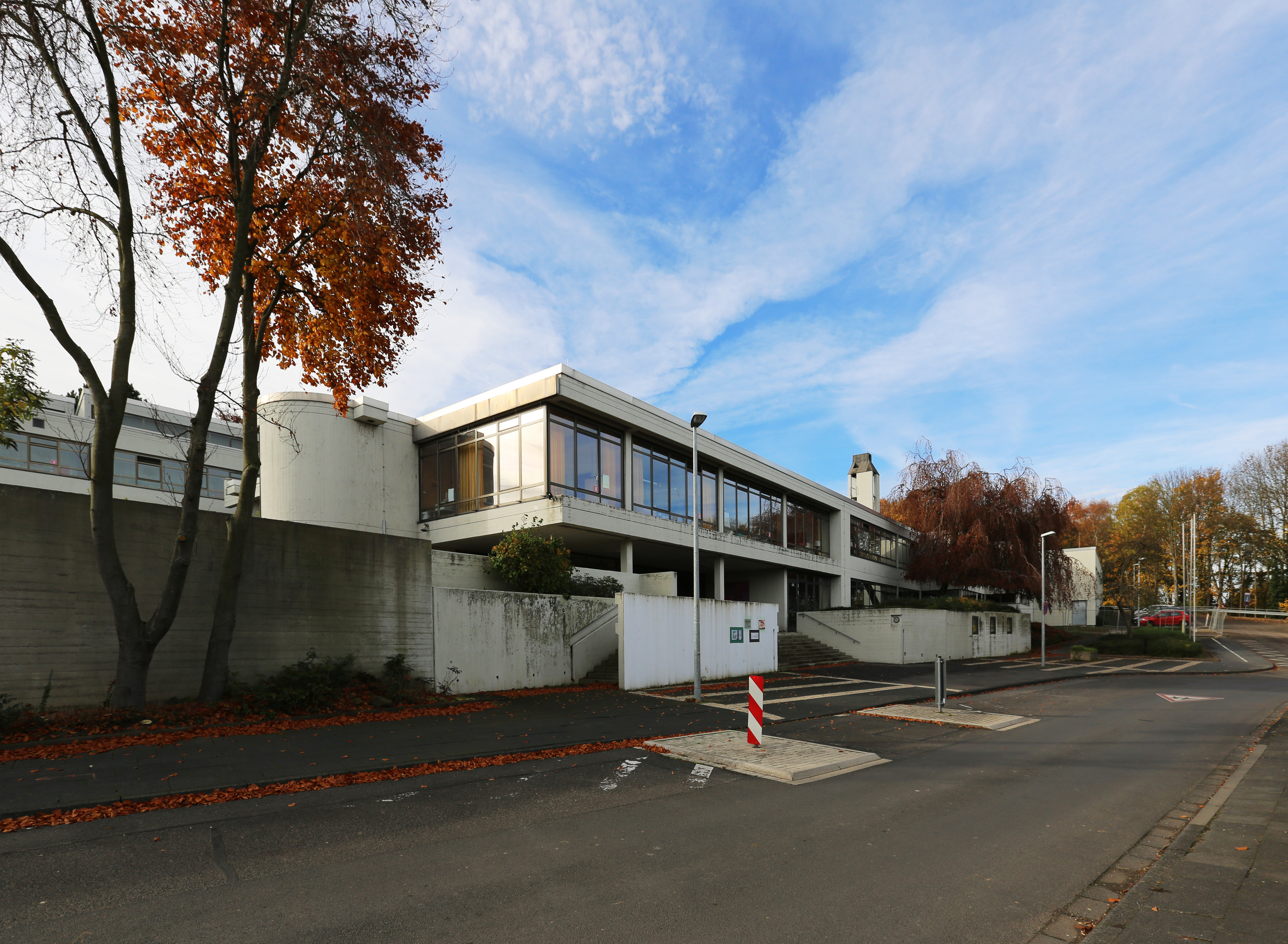 Community school Waldorf (Bornheim), Germany